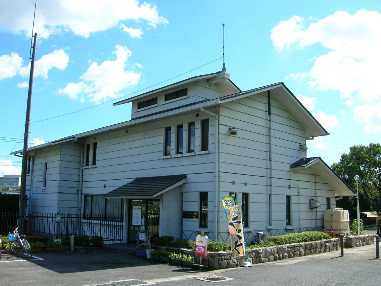 Nagakute-shi Kyodo Shiryōshitsu (Nagakute Historical Museum) Loc: Nagakute city, Aichi Prefecture, Japan. 長久手市郷土資料室 撮影場所 愛知県長久手市・古戦場公園